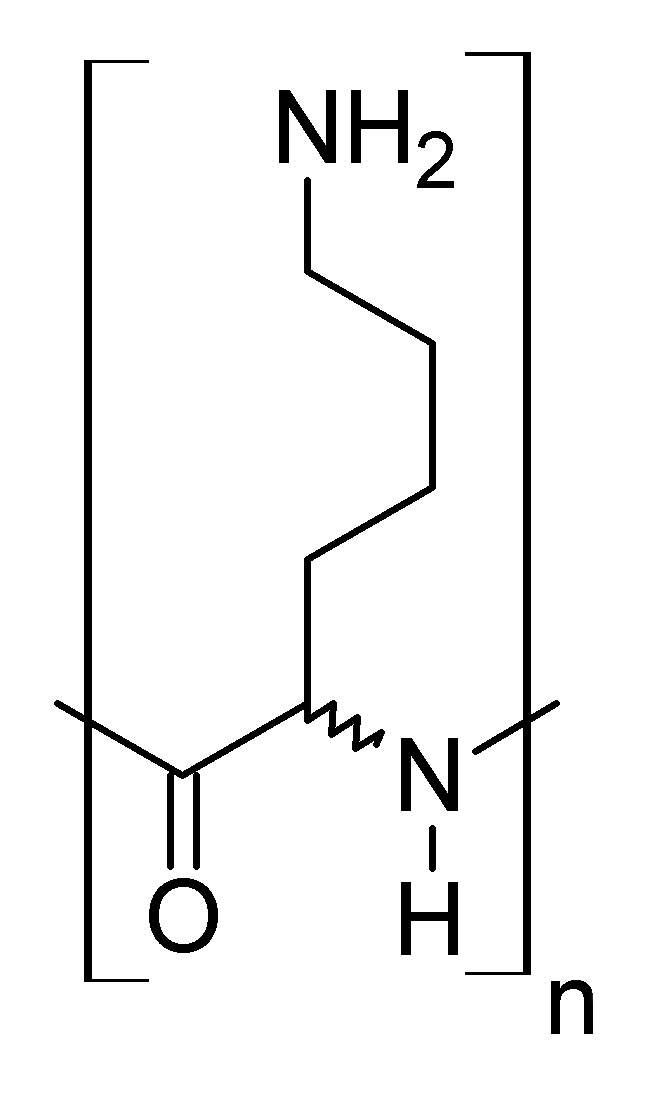 Structure of α-Polylysine. High-resolution black/white .PNG file made with Chemsketch and GIMP